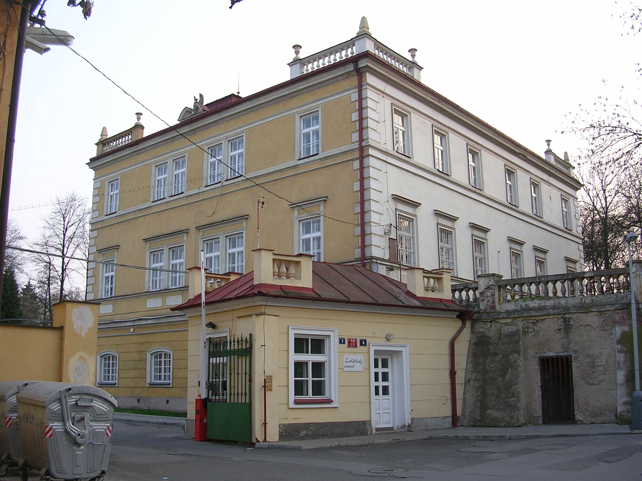 Záběhlice, Prague, the Czech Republic.